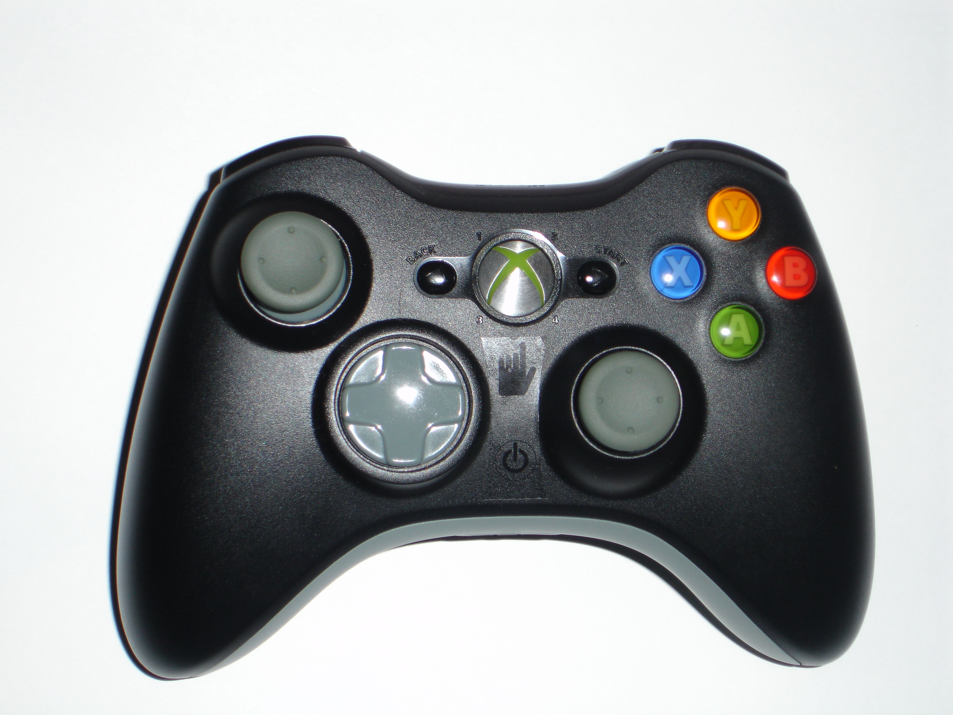 Xbox 360 Black Wireless Controller